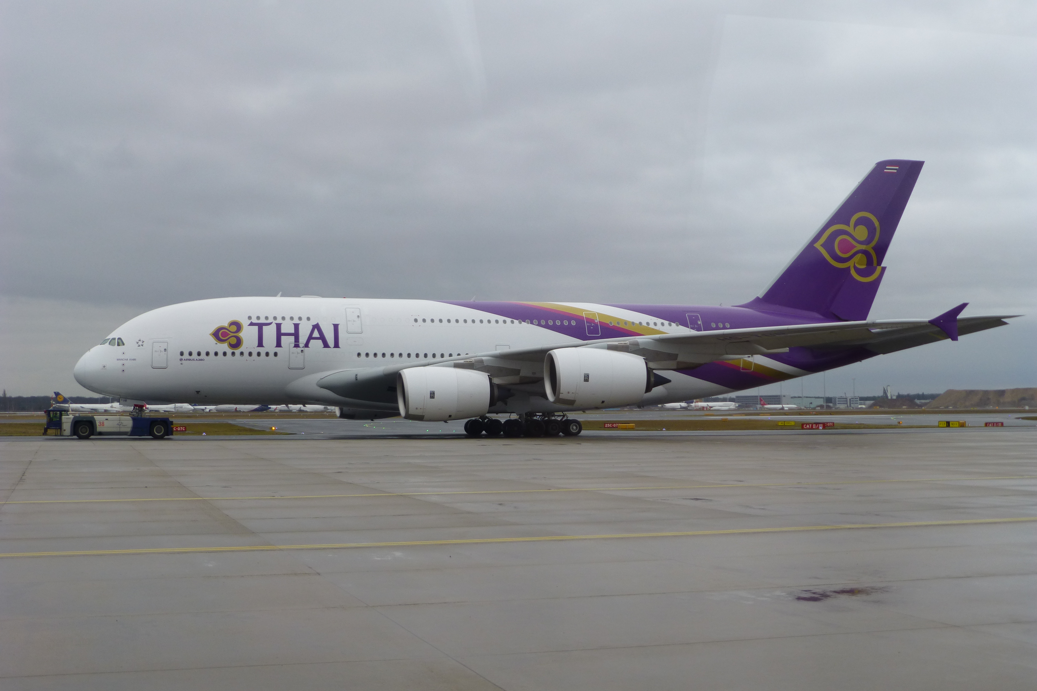 Thai Airways Airbus A380 at Frankfurt Airport